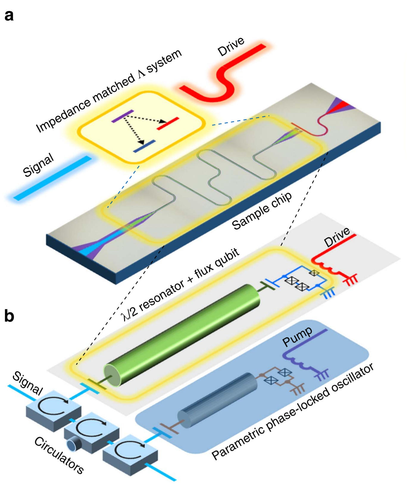 "(a) Image of the sample chip containing a flux qubit and a superconducting microwave resonator coupled capacitively and operated in the dispersive regime. For certain proper conditions of the qubit drive, the coupled system functions as an impedance-matched Λ-type three-level system. (b) Schematic of the itinerant microwave-photon detector consisting of the coupled system and connected to a parametric phase-locked oscillator (PPLO) via three circulators in series. The circuit has three input ports: signal, qubit drive, and pump for the PPLO." From the paper "Single microwave-photon detector using an artificial Λ-type three-level system" published in Nature Communications, 2016.